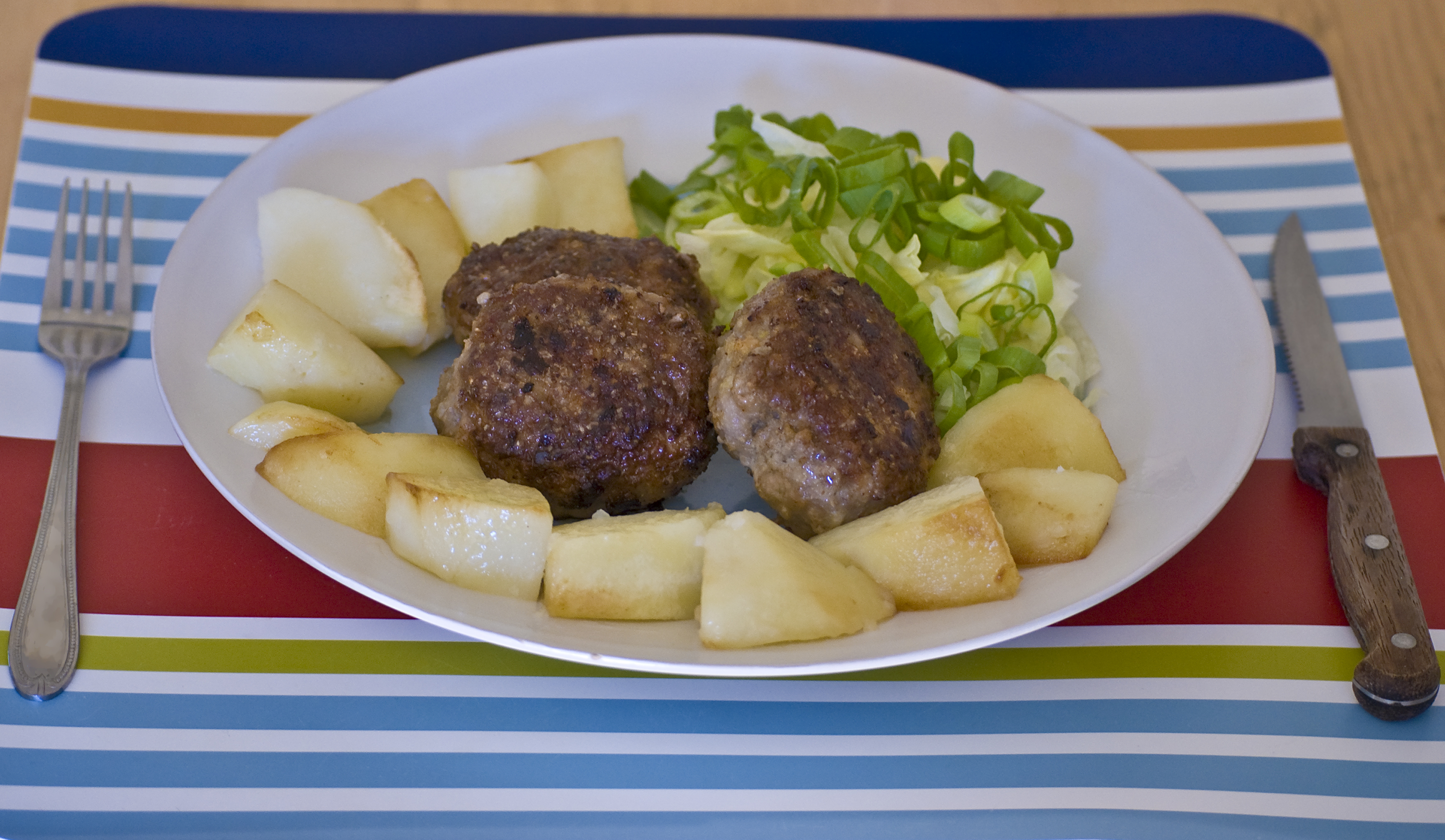 Ingredients (serves 3): 500g beef mince 1 carrot 1 onion 1 egg 50g butter 50g olive oil (for potato) wholemeal flour 3 potatoes salt pepper green Other pictures: one, two Combine mince, carrot, onion, egg, salt and pepper. Mix well. Form rissoles and roll in a flour. Melt butter. Cook rissoles on a pan for 10 min (medium fire) on each side and 5 min with a lid on. Serve with fried potato and green.